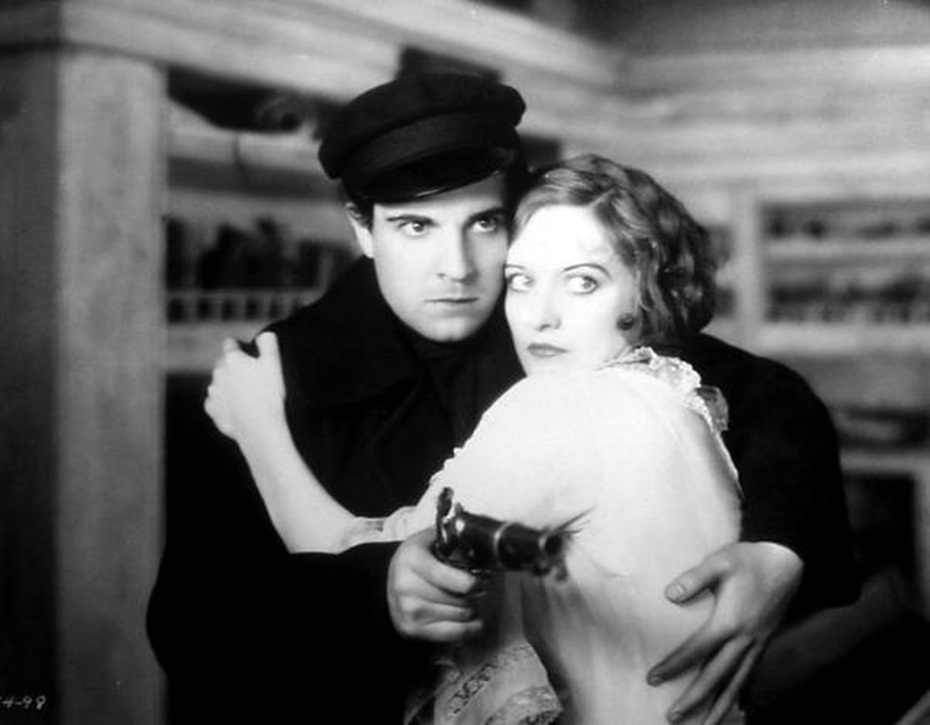 Ramon Novarro and Joan Crawford in the American film Across to Singapore (1928).